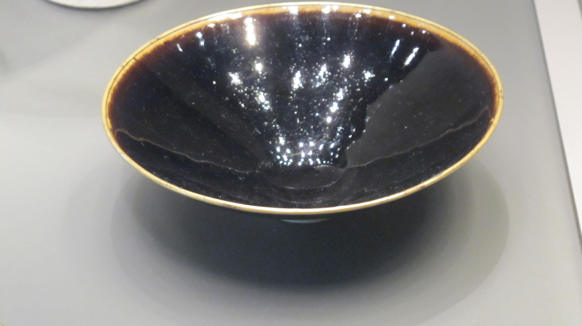 Black glazed tea-bowl. AD 1000-1127. Northern Song dynasty. Quyang, Ding prefecture, Hebei province. Sir Percival David Collection, British Museum. Quotation of the museum : Ding potters manufactured vessels of exquisite quality with pure white bodies, but also added coloured glazes. This example is coated in a solution rich in iron-oxide which, when fired, gives it a glossy ink-black color. Song dynasty writers celebrated black and brown wares, associating them with luxurious lacquer wares. It has a copper rim which enhances its status.